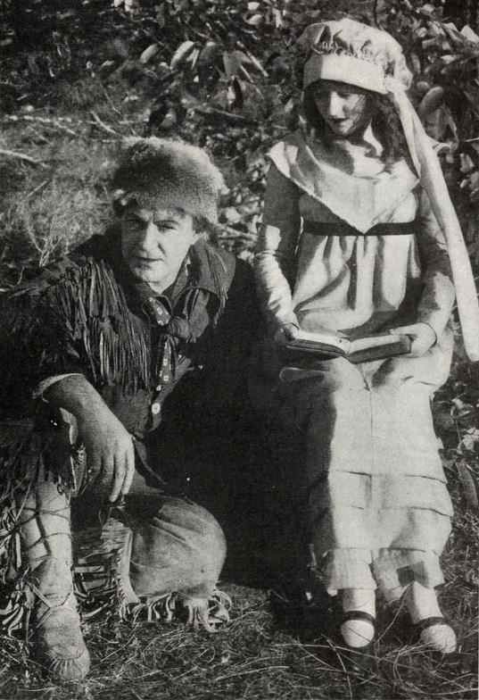 Still from the American film Davy Crockett (1916) with Dustin Farnum and Winifred Kingston, on page 93 of the September 1916 Motion Picture magazine.